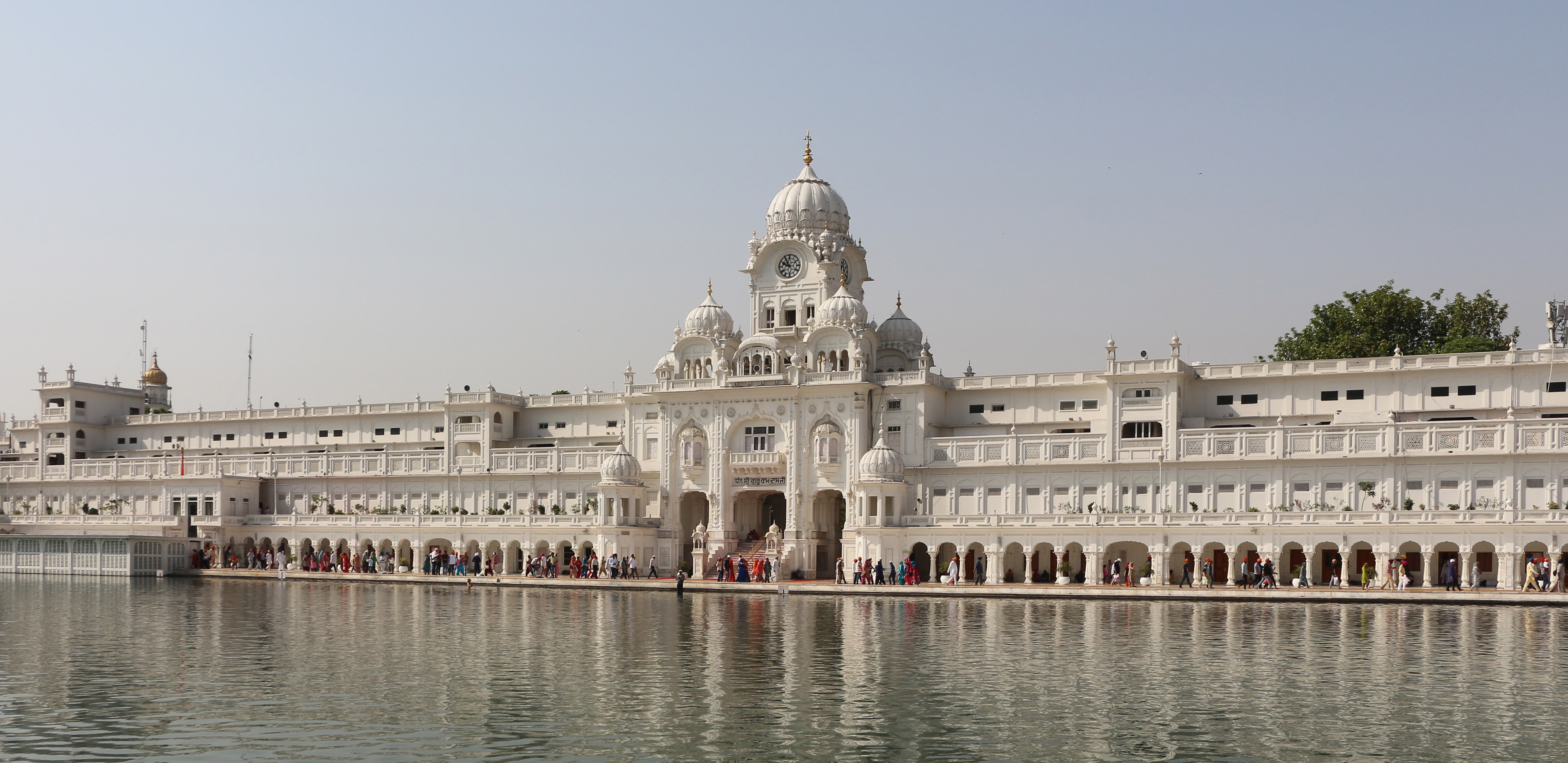 Atta Mandi Deori, one of the gate of the Golden Temple, Amritsar, India